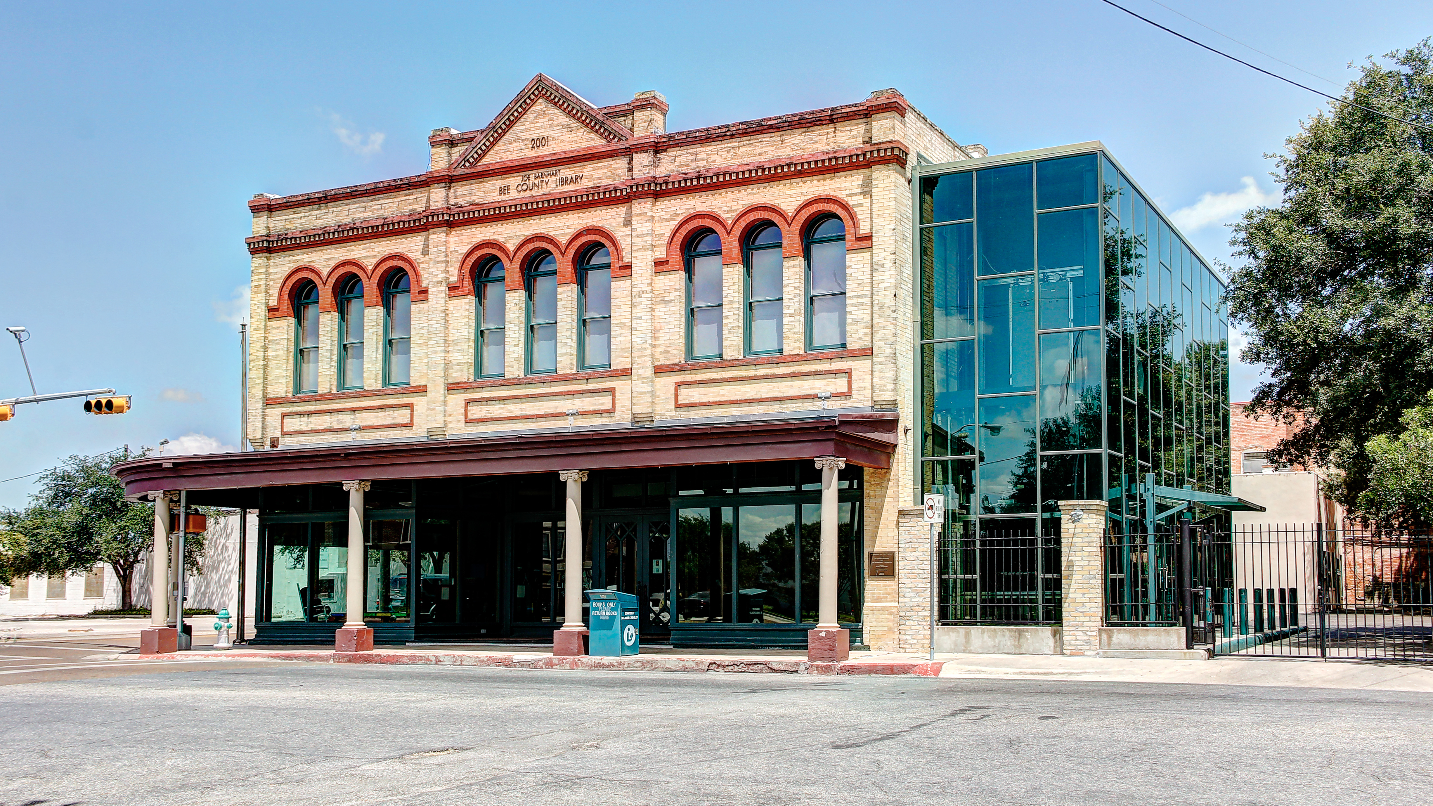 Photo by Jonathan Cutrer Beeville, Texas